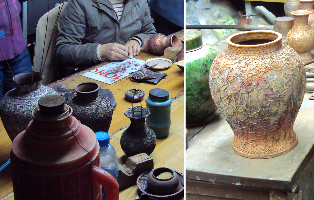 First step of cloisonné amanel